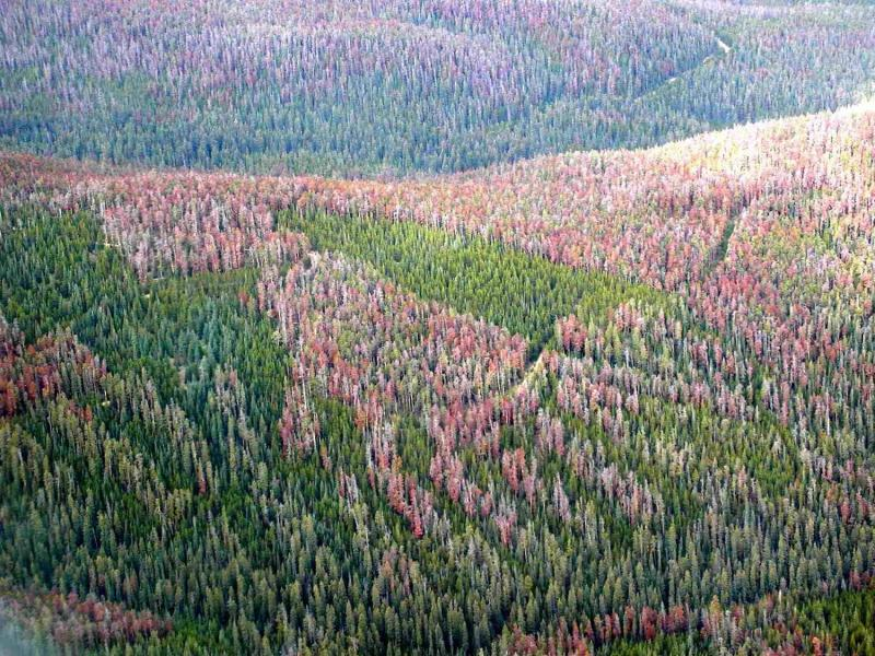 Mountain pine beetle outbreak on the Fraser Experimental Forest, Arapaho National Forest, Colorado, part of the Fraser Biosphere Reserve, 2007.